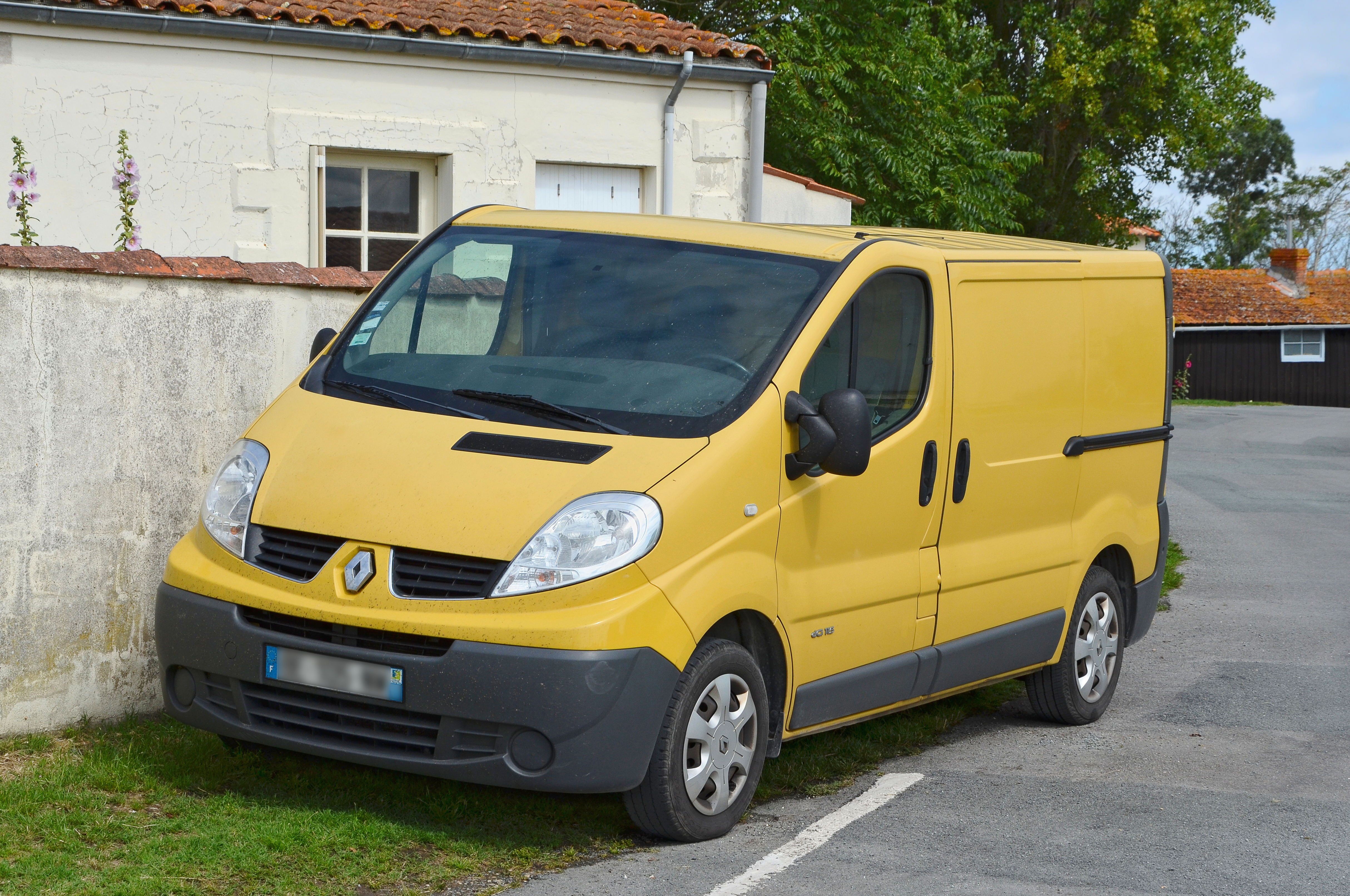 Renault Trafic DCI 115, port of La Cayenne, Marennes, Charente-Maritime, France.